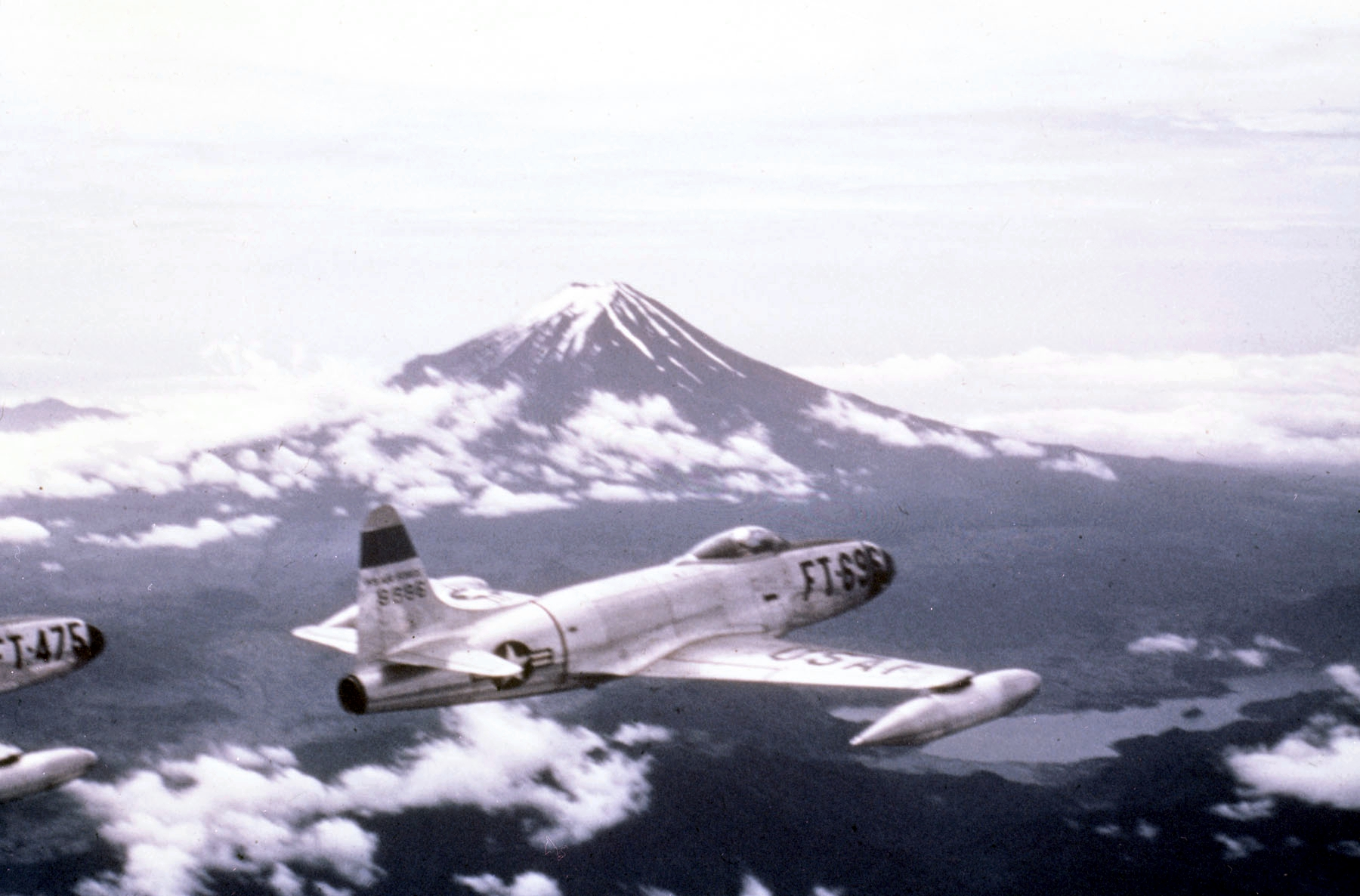 35th Fighter Squadron F-80C 49-696 Near Mt Fuji Japan 1950 Aircraft now in USAF Museum, W-P AFB, Dayton Ohio